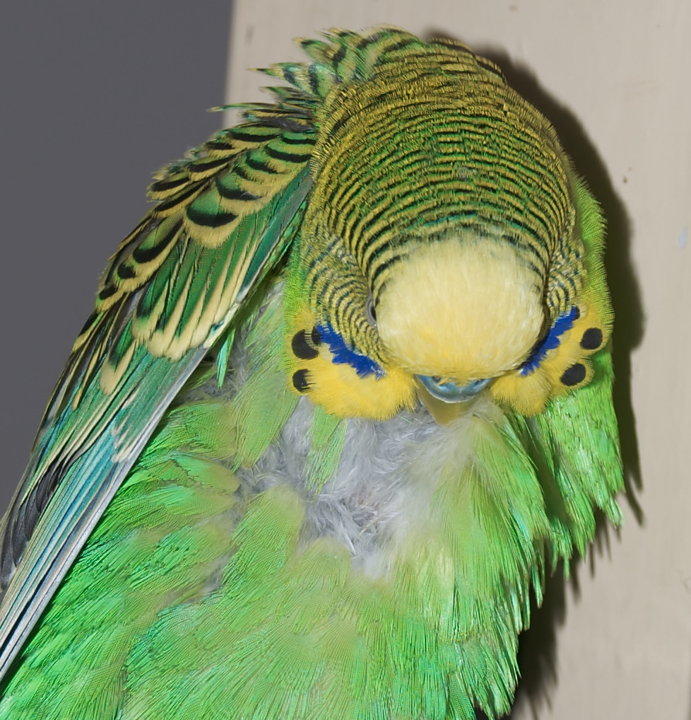 A male pet Budgerigar preening